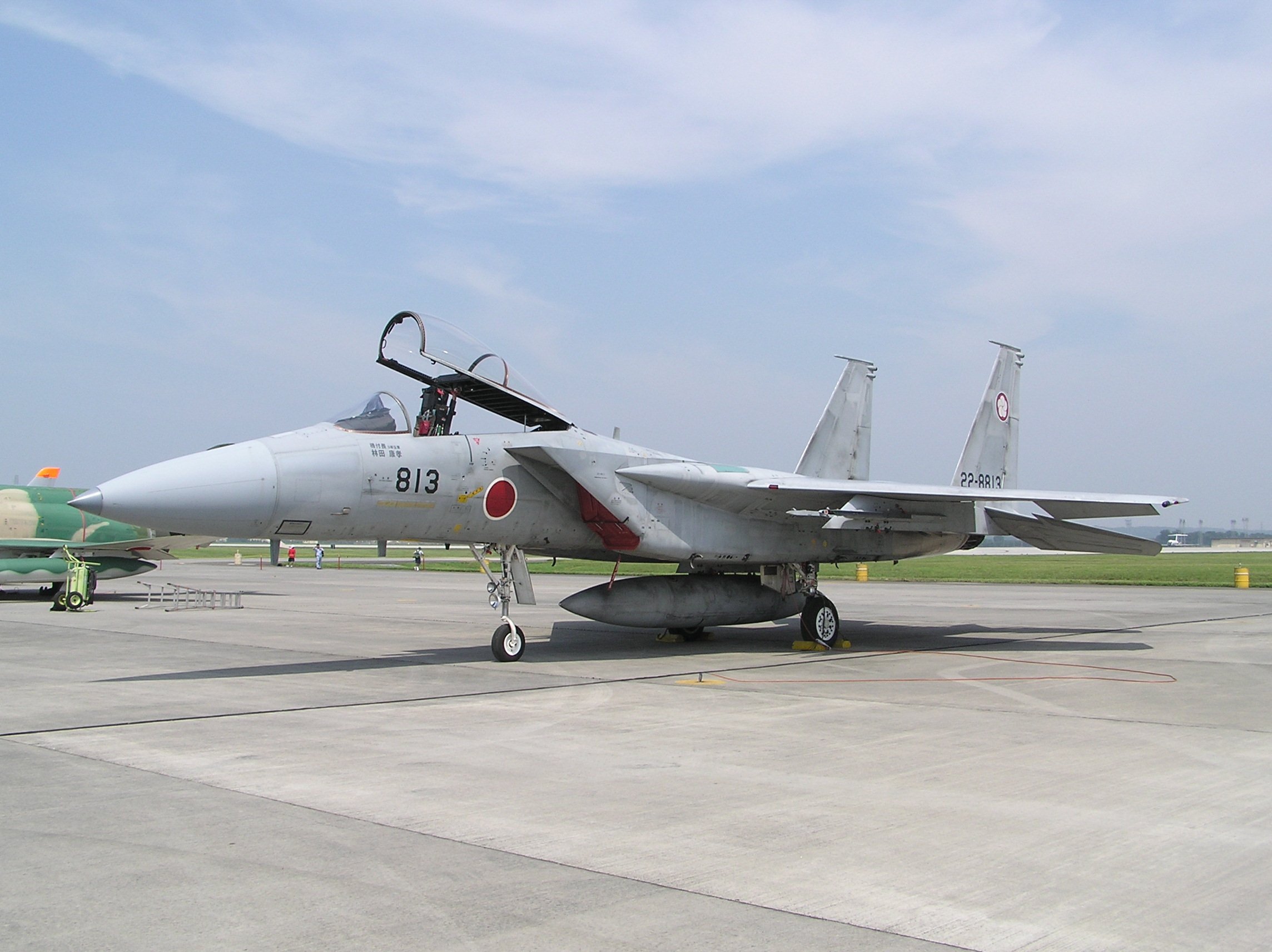 F-15J (813) of 305 Sqn at Yokota Air Base.